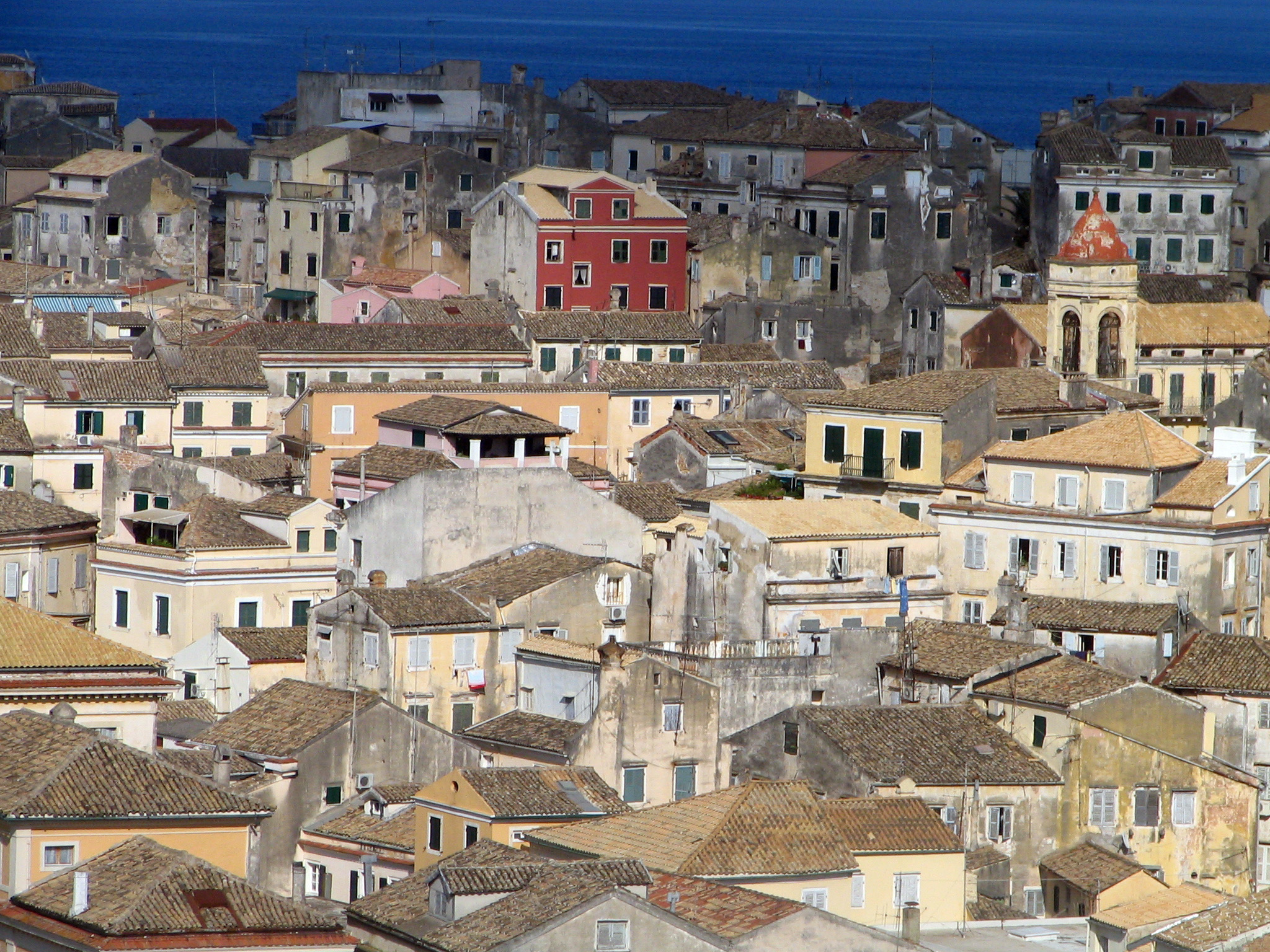 Corfu town centre